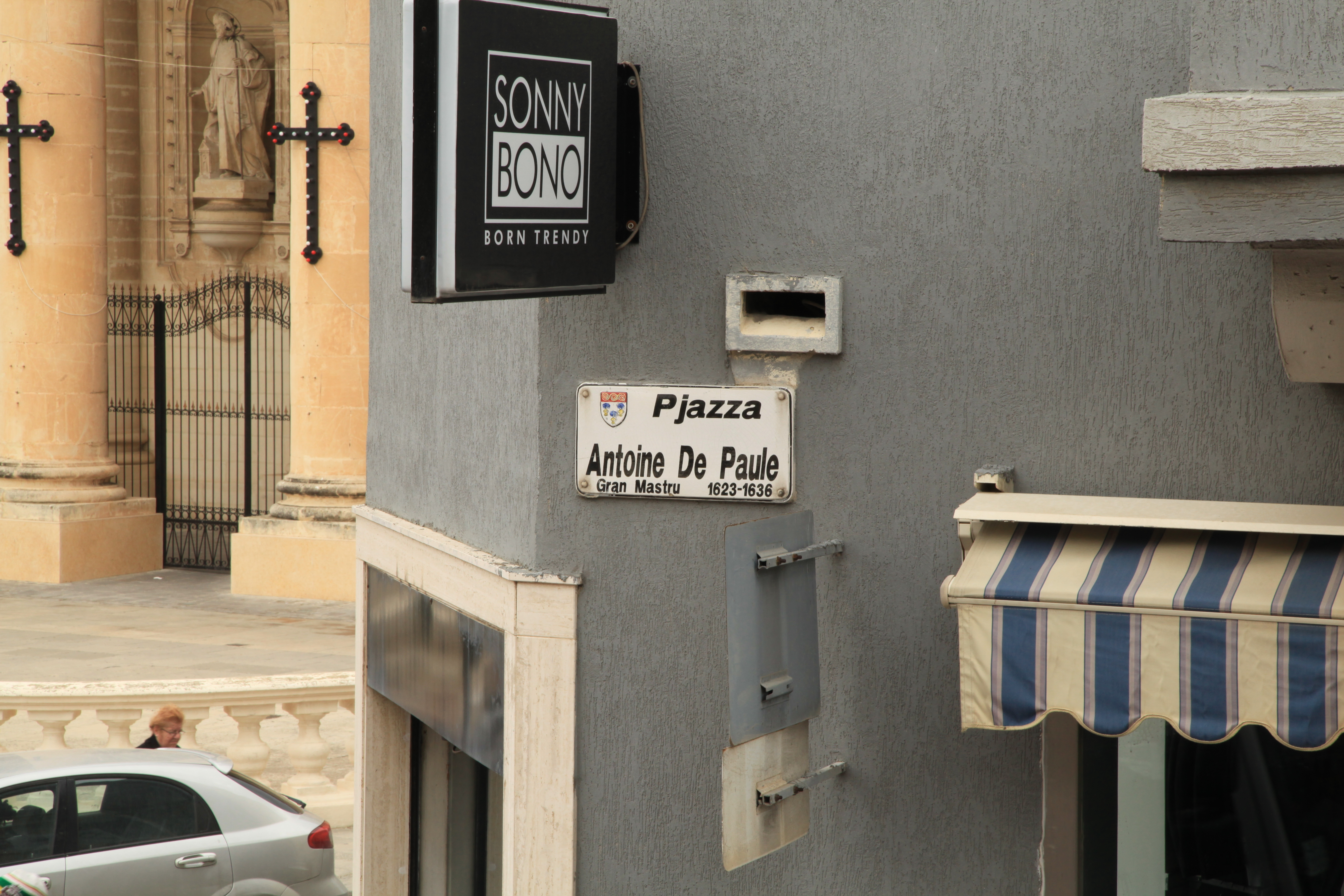 View from a Malta sightseeing south tour bus to Pjazza Antoine De Paule in Paola, Malta